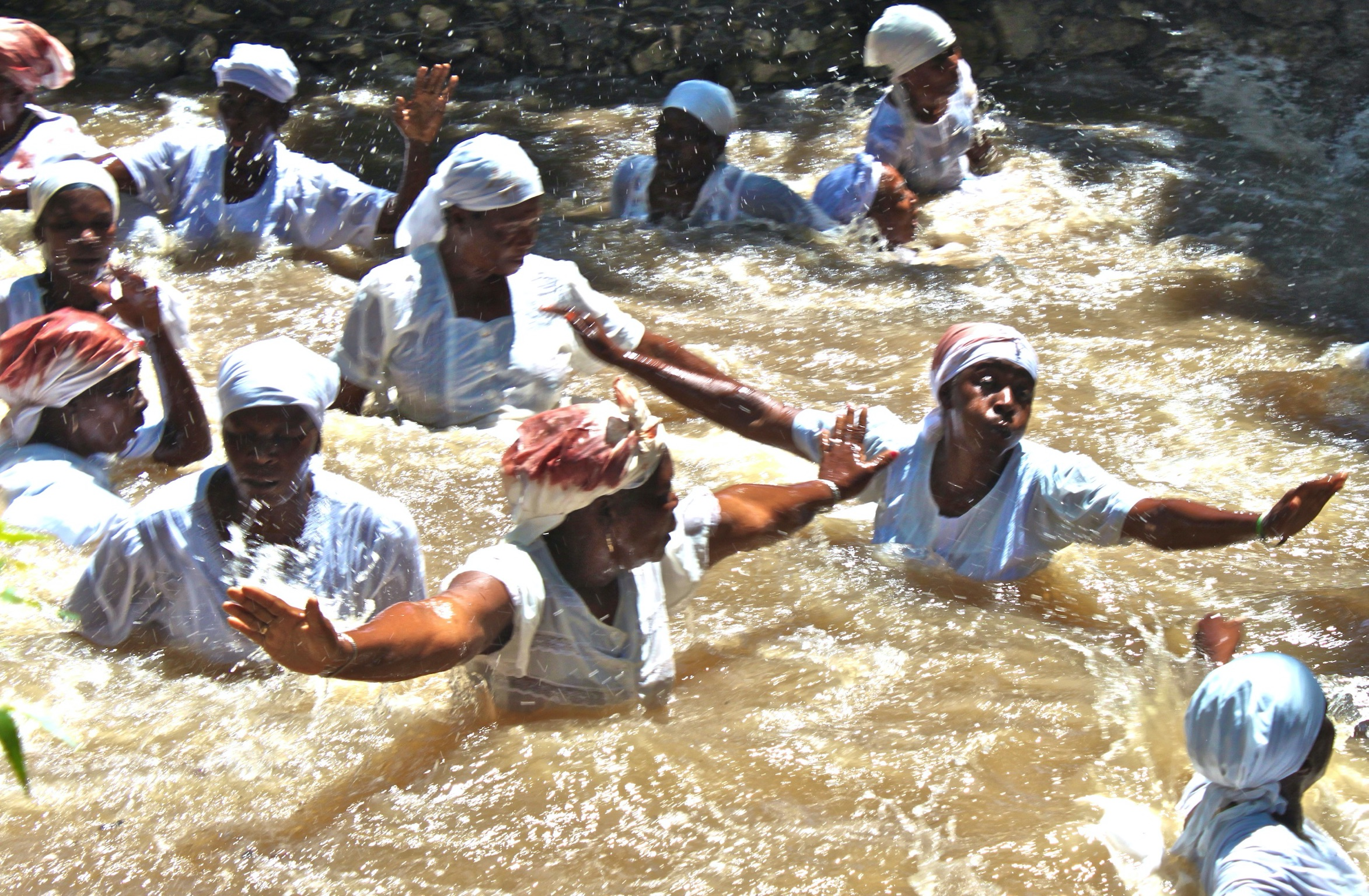 After the sacrifice, the people wash away their sins in a pool of mud, voodoo Ceremony, La souvenance Gonaives This photo has been taken in the country: Haiti